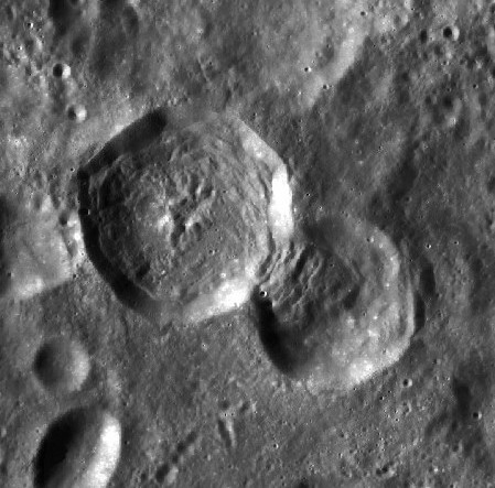 Shirakatsi left and Dobrovol'skiy right: LROC